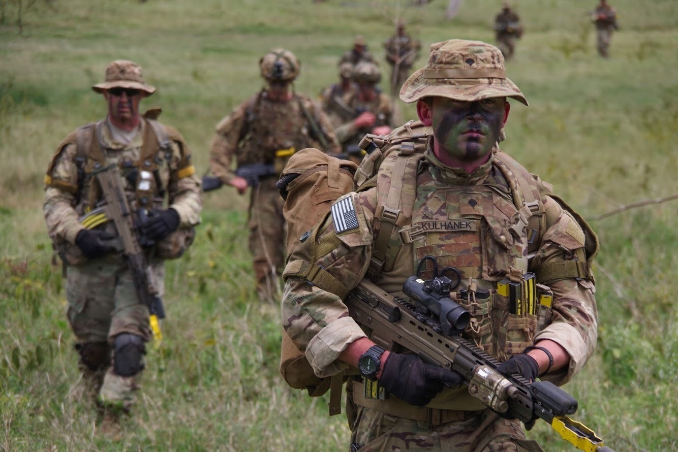 Paratroopers from 1st Battalion, 508th Parachute Infantry Regiment conduct a training patrol alongside British paratroopers of 2PARA, 16 Air Assault Brigade on November 28, 2018 in Kenya, Africa. The training scenario was part of Operation Askari Storm, a multinational training exercise occurring in Kenya, Africa between U.S., British and other partner-nation forces. The training focuses on increasing the readiness and interoperability of the participating forces while placing them in tough, realistic scenarios against simulated near-peer adversaries. Photo by Spc. John Lytle.